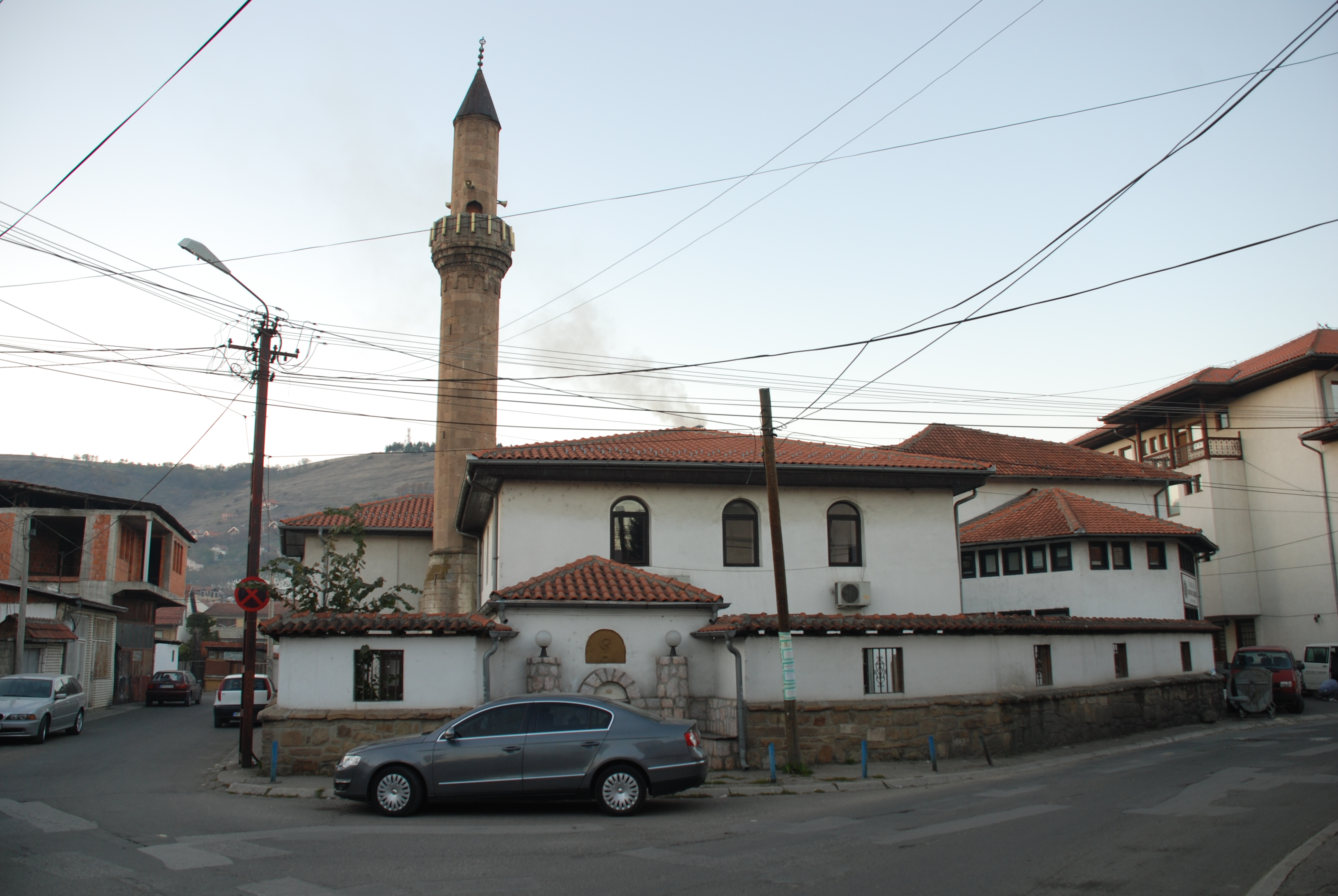 Hadži Huremova - Bor mosque with a cemetery in Novi Pazar